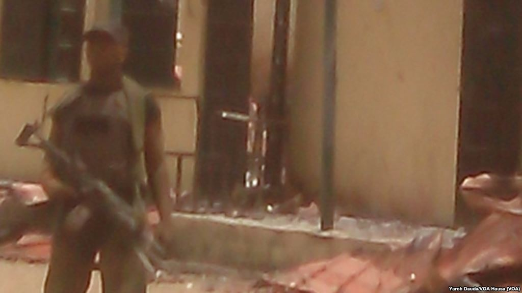 Soldier watches over the school after the Chibok kindap.